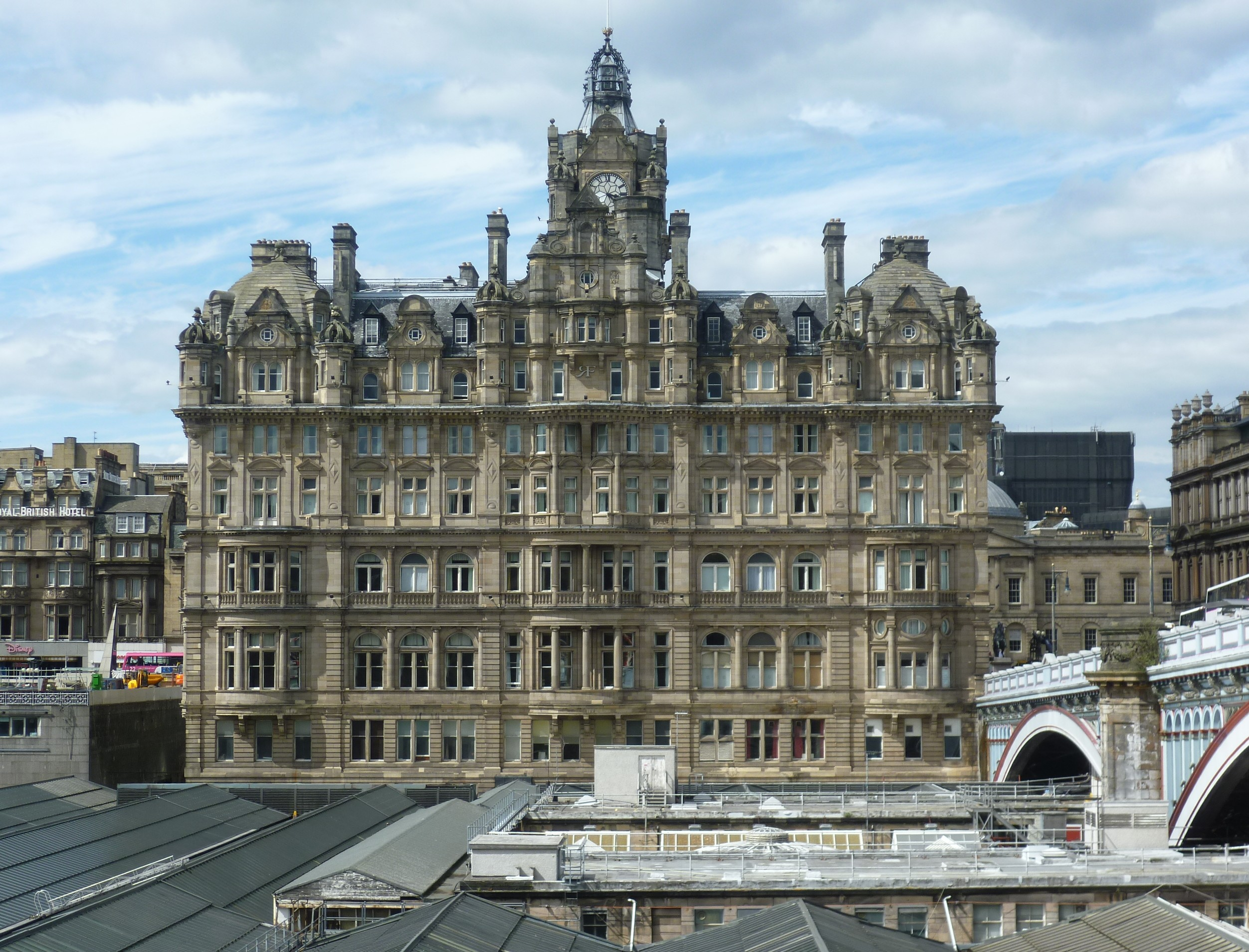 Former North British Hotel above Waverley Station, seen from the Scotsman Steps